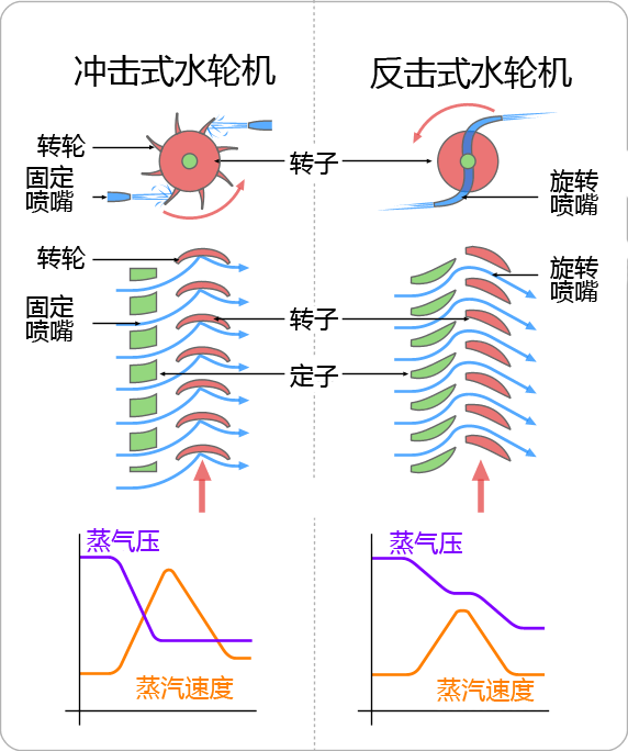 The simplified Chinese edition